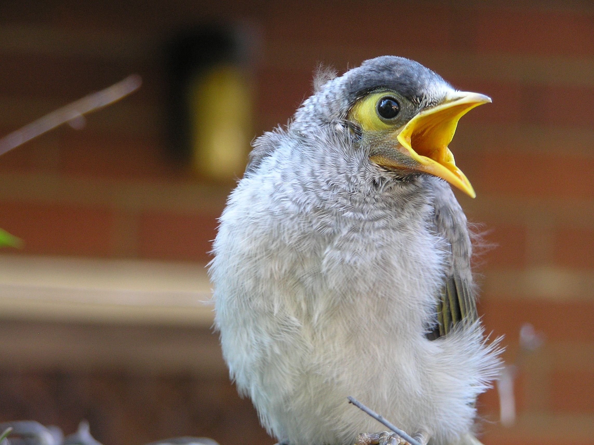 Hungry Juvenile Noisy Miner in Sydney, Australia